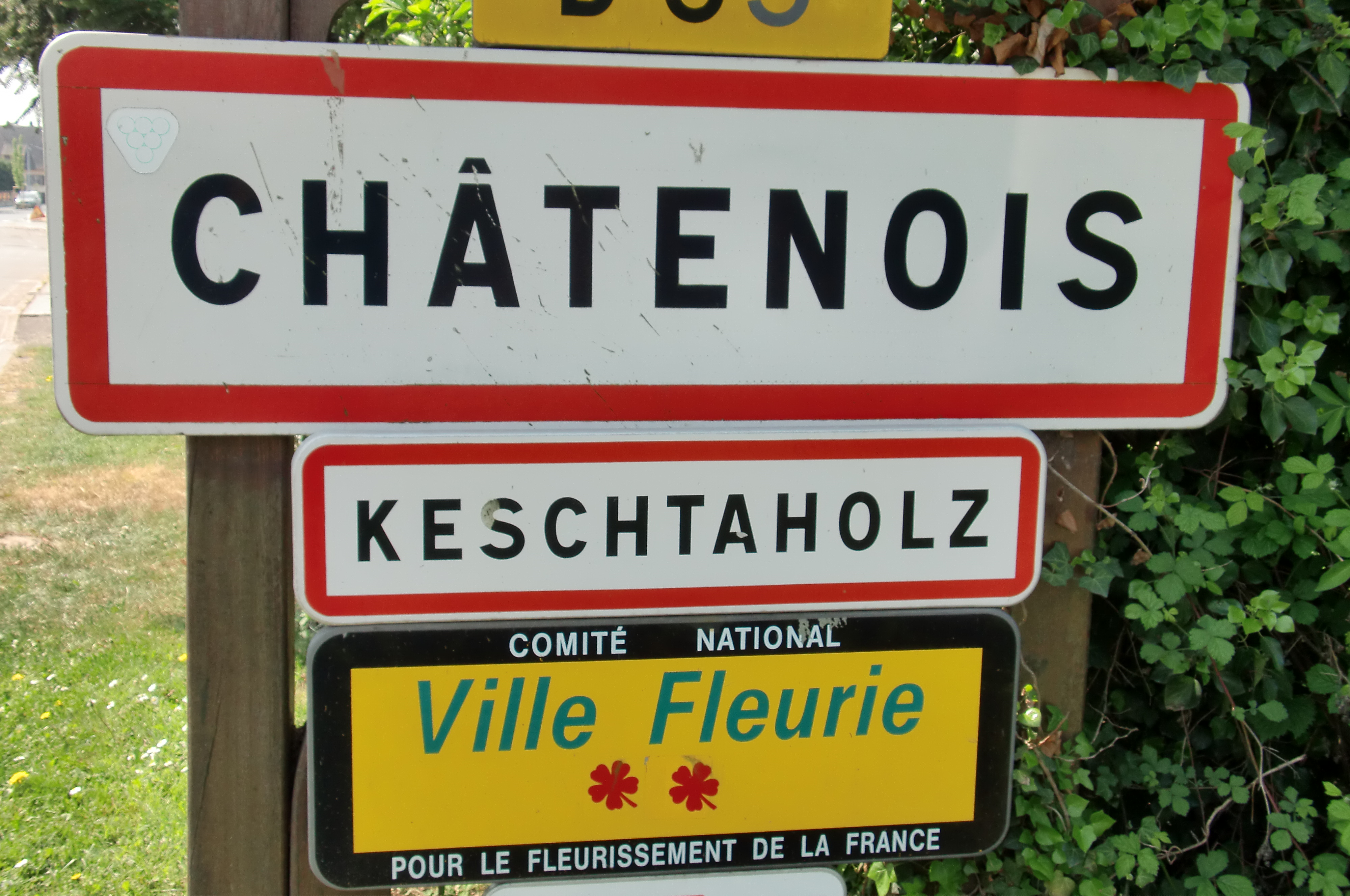 Bi-lingual signpost of Chatenois/Keschtaholz, Alsace, France